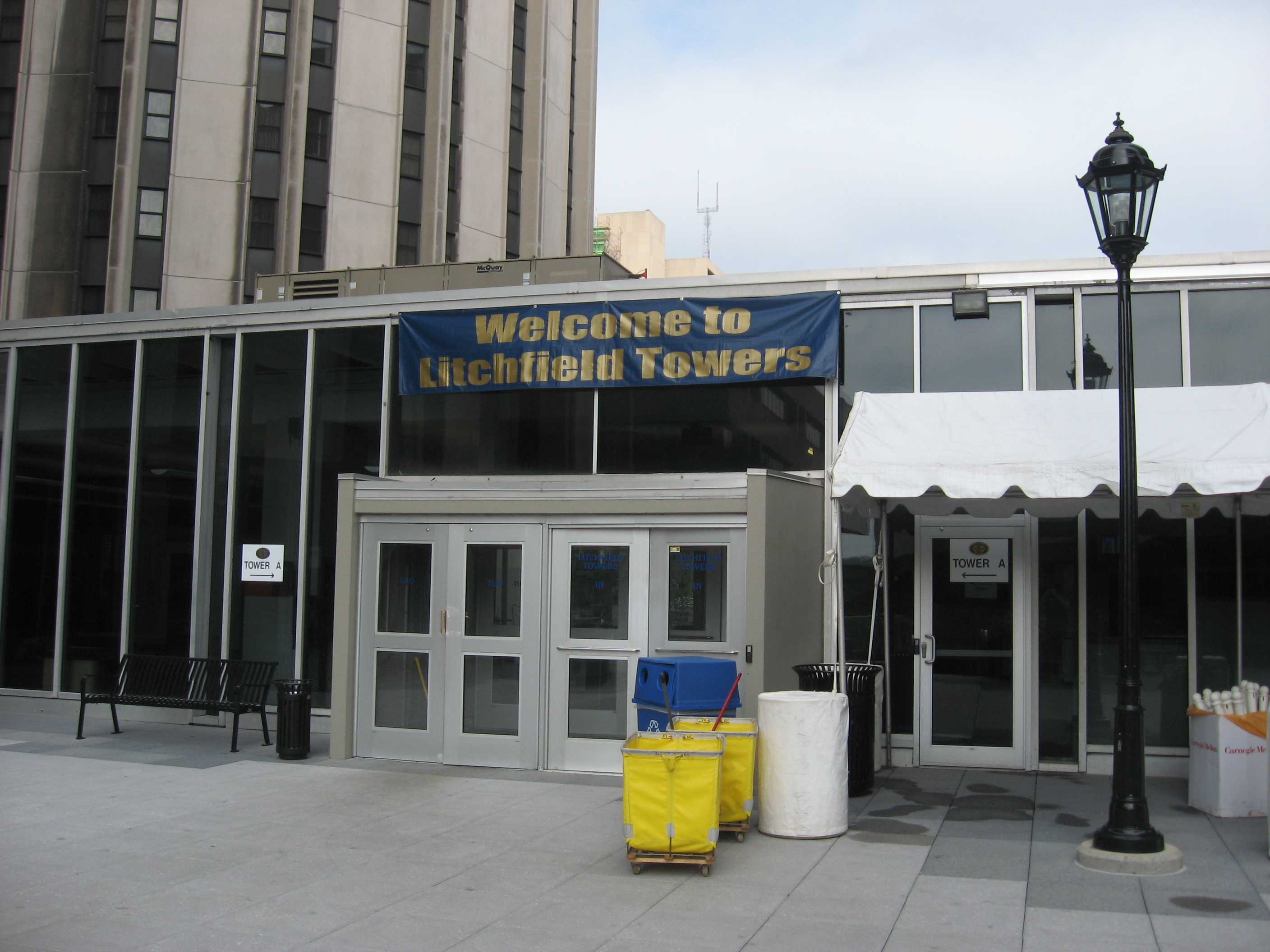 The Litchfield Towers at University of Pittsburgh during move-in and orientation week.